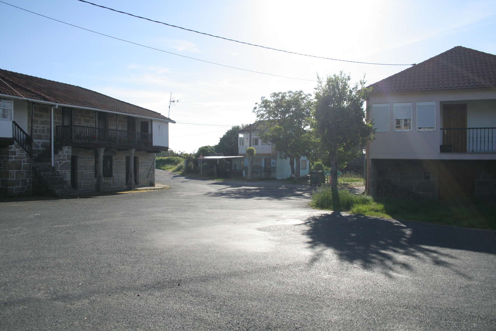 Gomesende, O Pao, Gomesende (Spain)